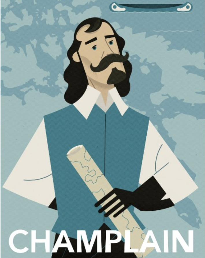 Samuel de Champlain